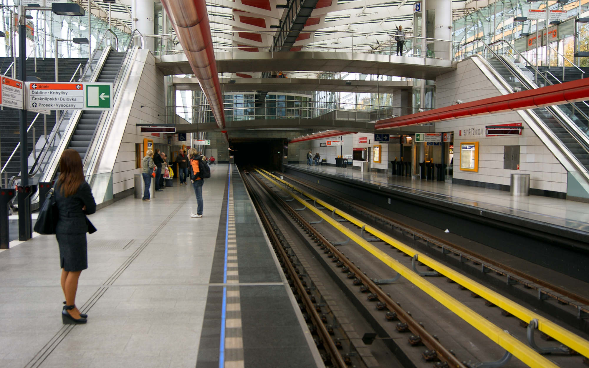 Prague metro, Strizkov station